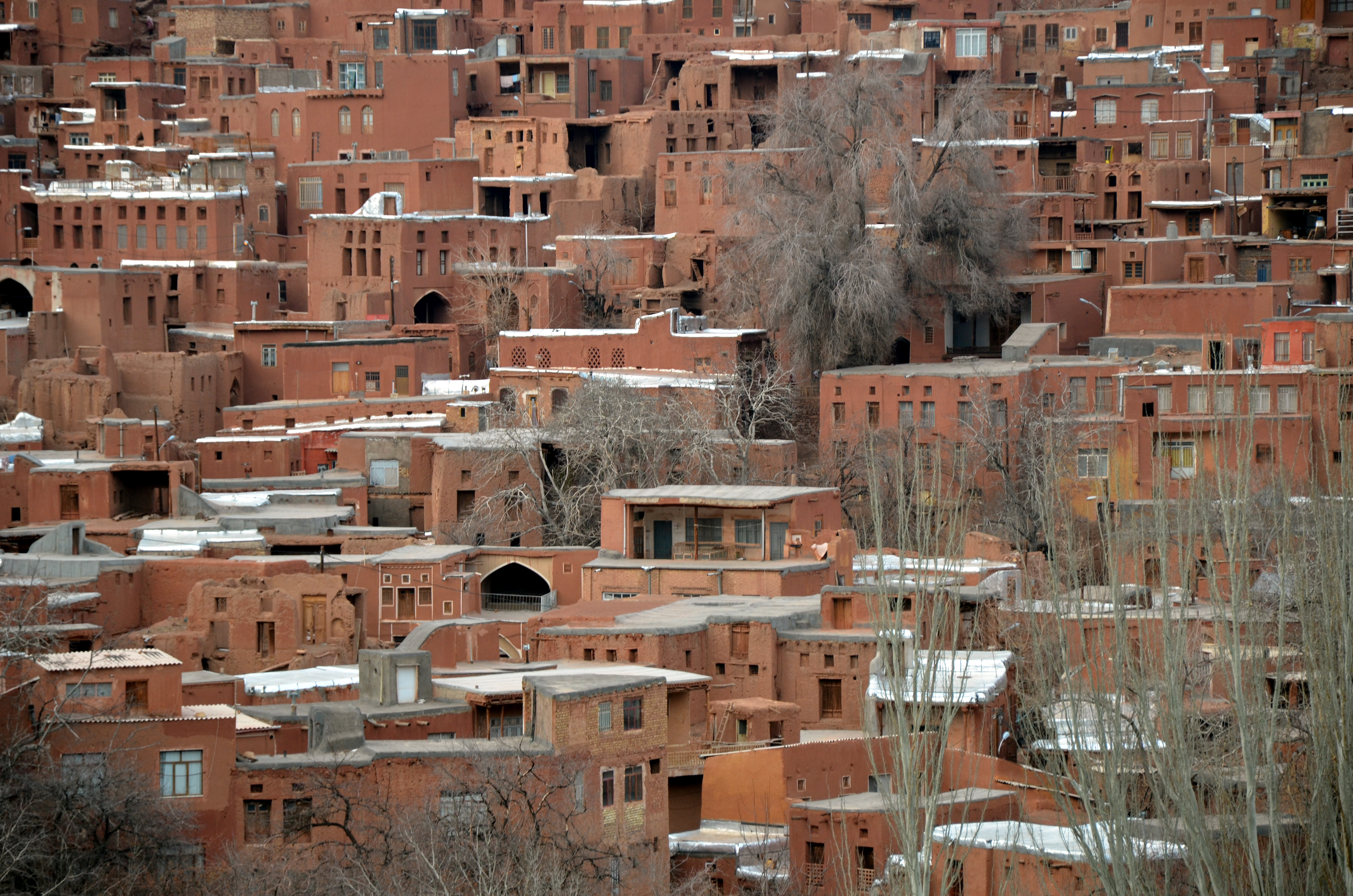 Abiyaneh, Iran